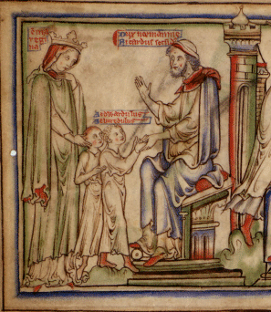 Queen Emma and her sons being received by Duke Richard II of Normandy